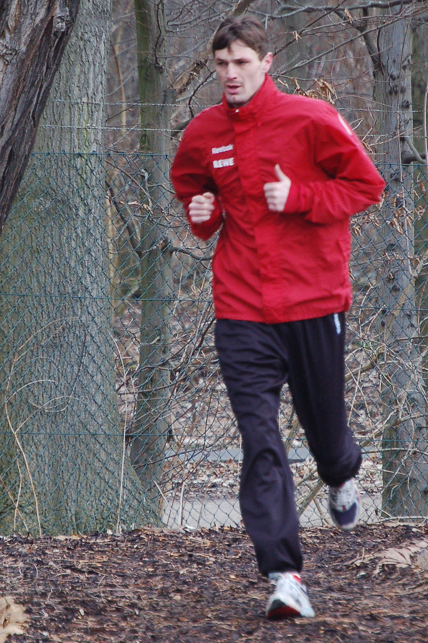 Soccer player Milivoje Novakovic.